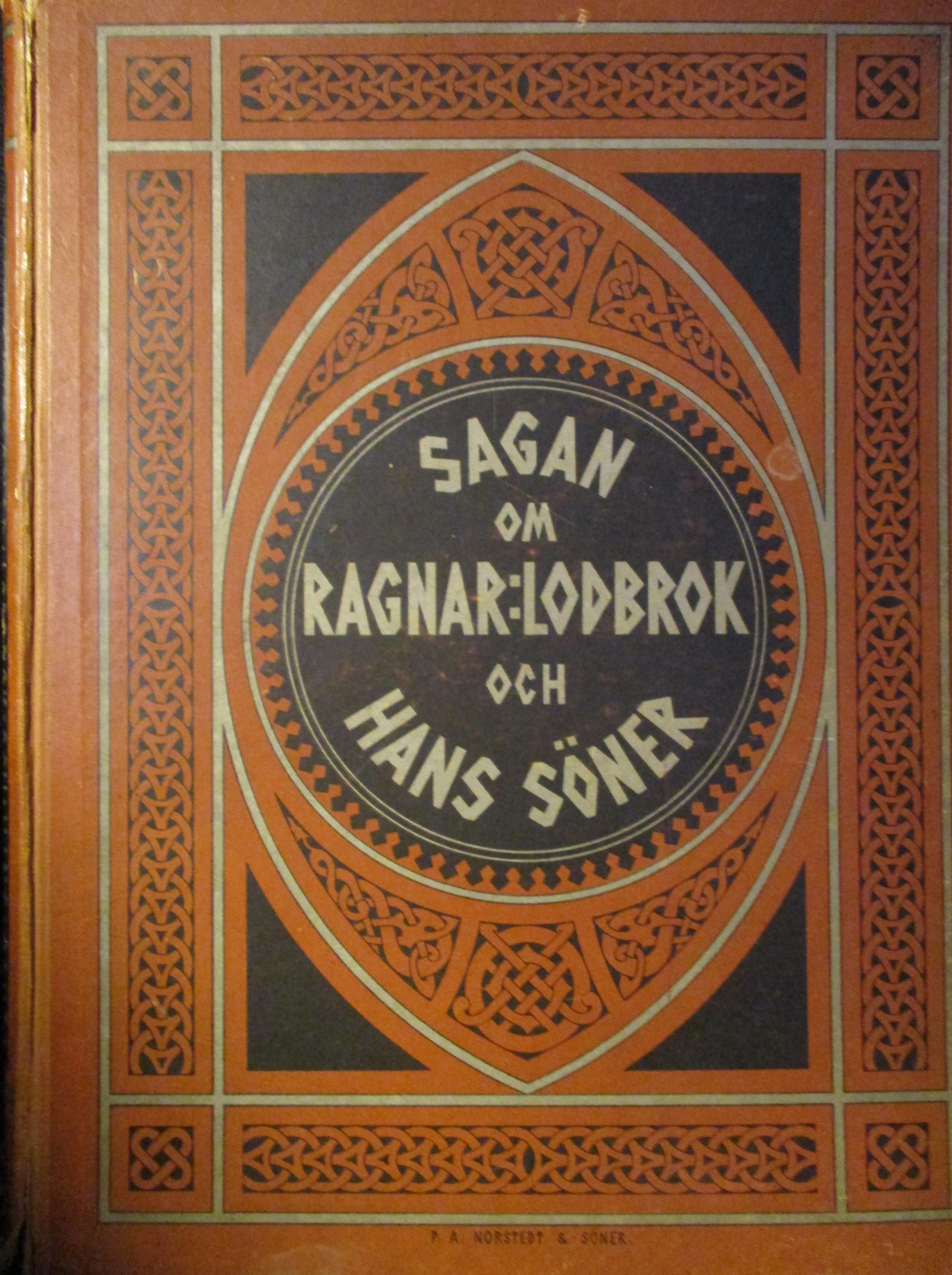 Front cover of Norstedt's large-size (26x34cm) book on the Rayner Lothbroc Saga from 1880 by P. A. Gödecke